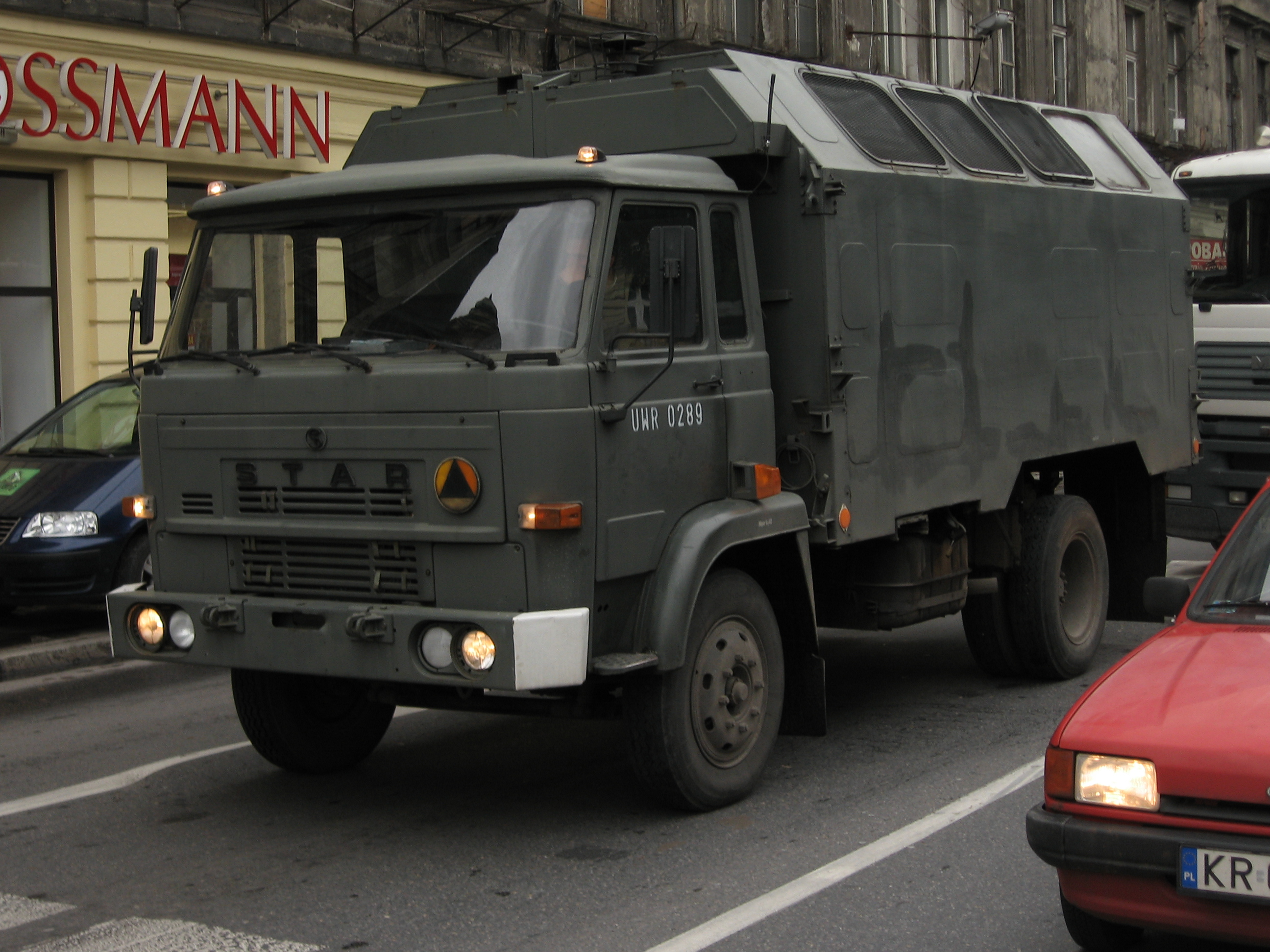 Star 200 military truck on Józefa Dietla street in Kraków.